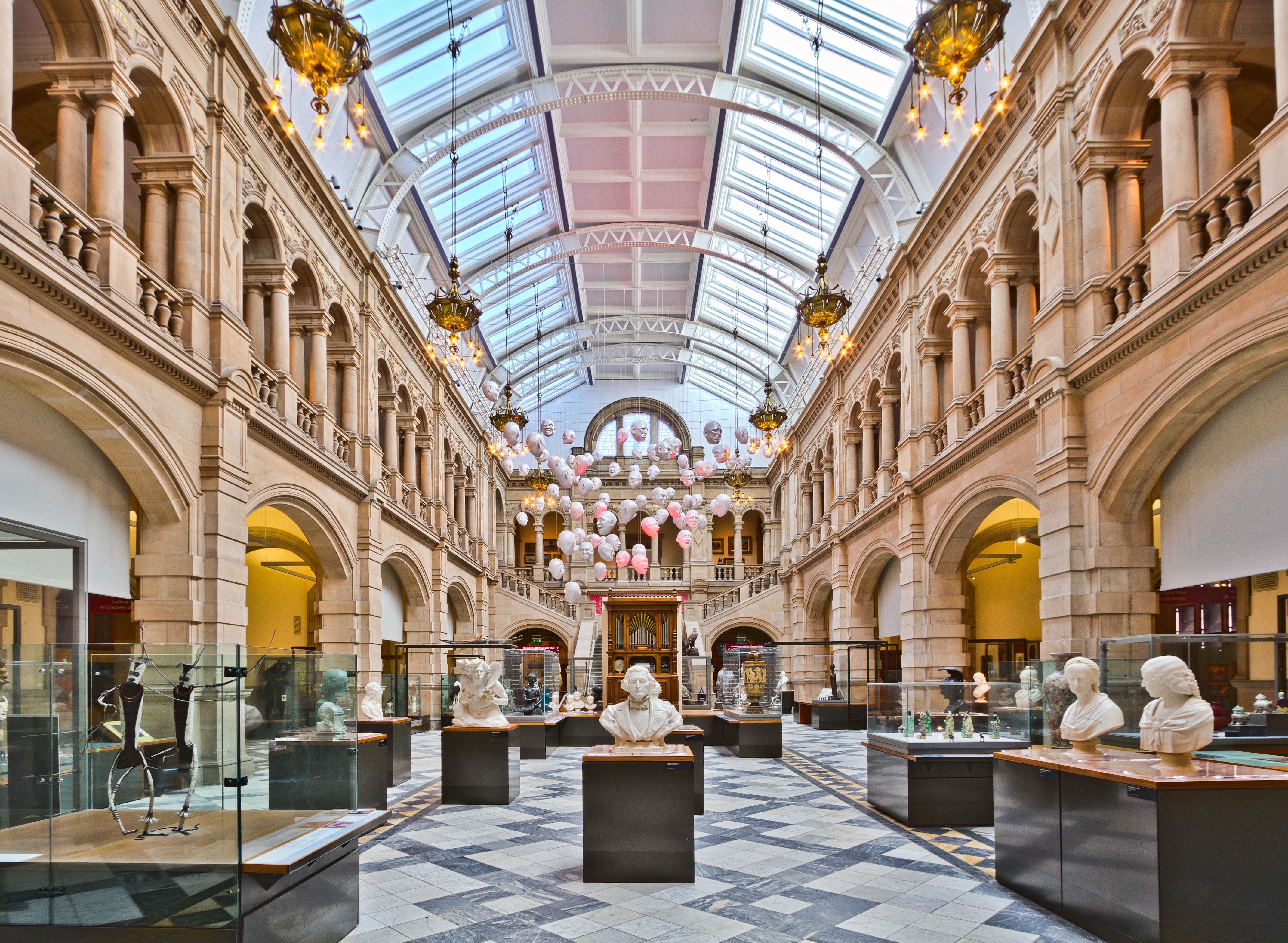 Here is a photograph taken from the Kelvingrove Art Gallery and Museum. Located in Glasgow, Scotland, UK.